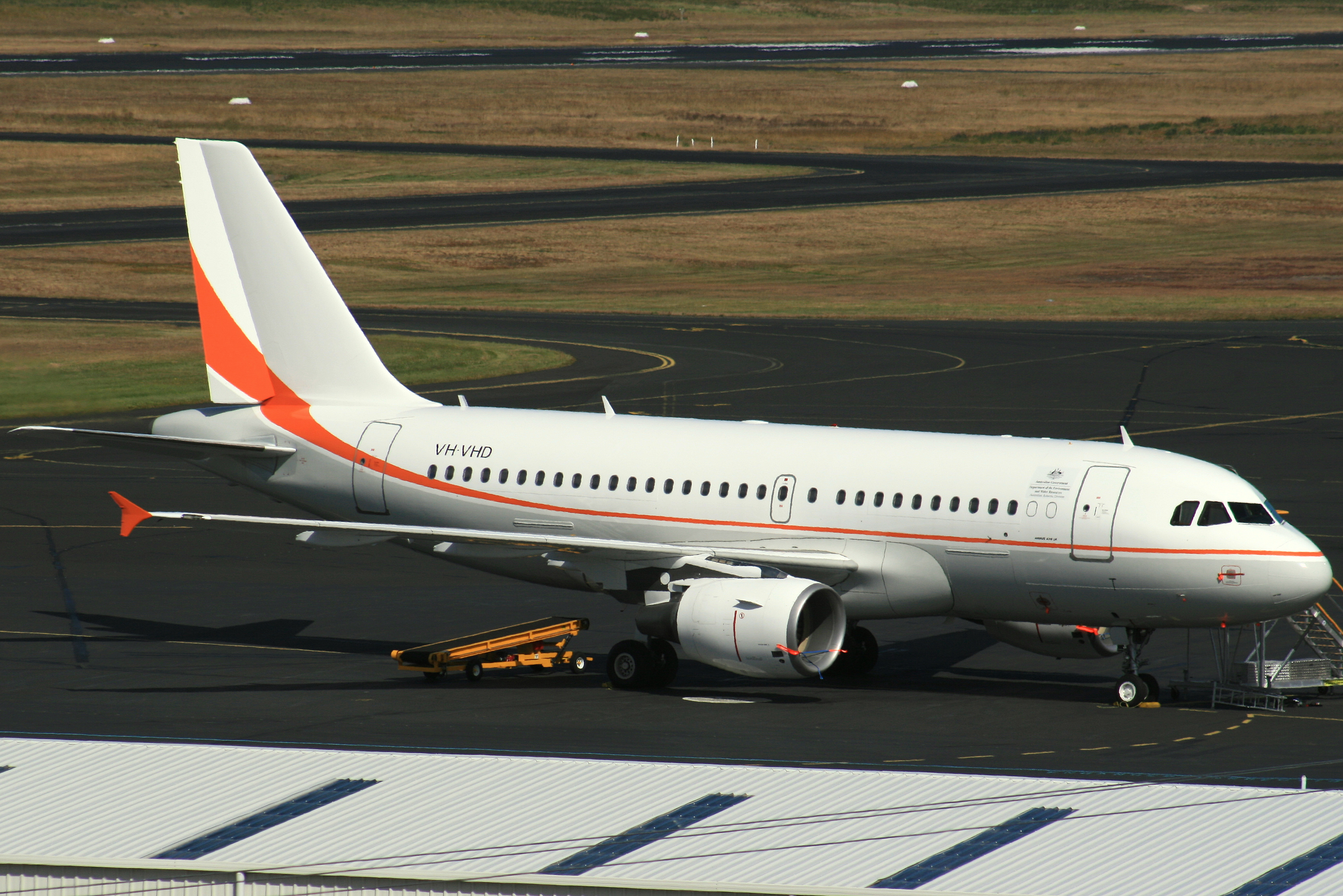 Skytraders' Airbus A319 parked at Hobart Airport. It is used to fly between Hobart and the Australian Antarctic Territory. The legend adjacent to the forward entry door features the Australian Coat of Arms and reads: "Australian Government Department of the Environment and Water Resources Australian Antarctic Division". Digital photo of VH-VHD taken by YSSYguy on 12 January 2009 & uploaded for use in the Skytraders article.